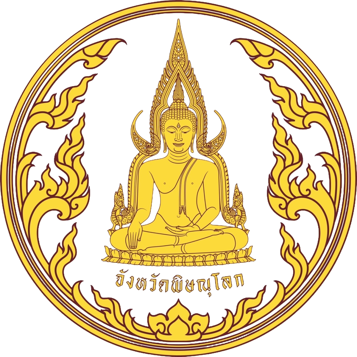 Provincial seal of Phitsanulok Province.